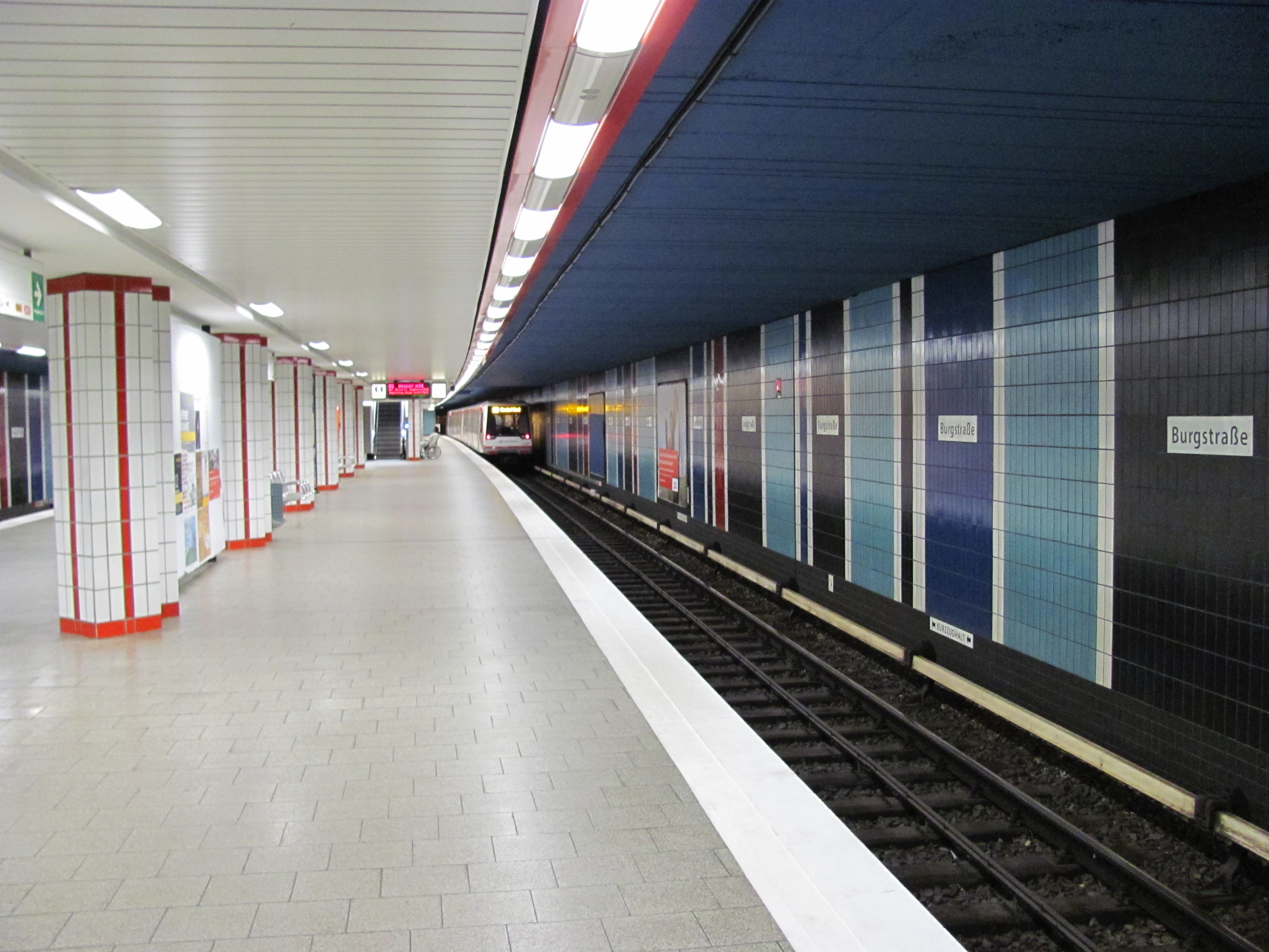 U-Bahn station Burgstraße in Hamburg, Germany